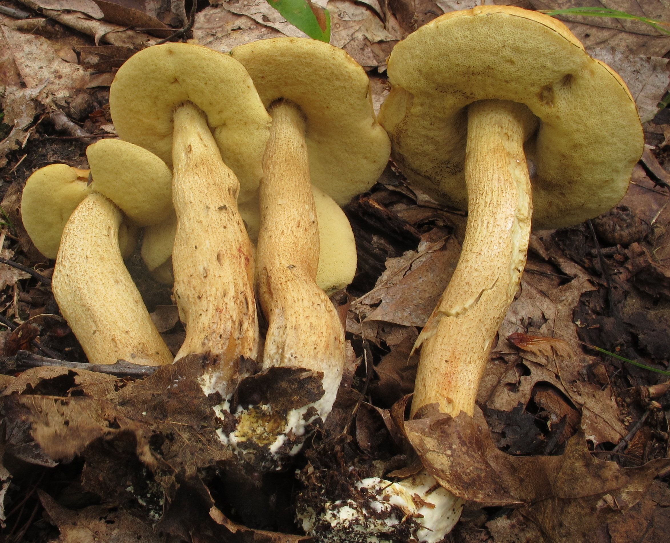 Fruitbodies of the bolete fungus Leccinum rugosiceps (Peck) Singer, found in Beaver Creek State Forest, East Liverpool, Ohio, USA.